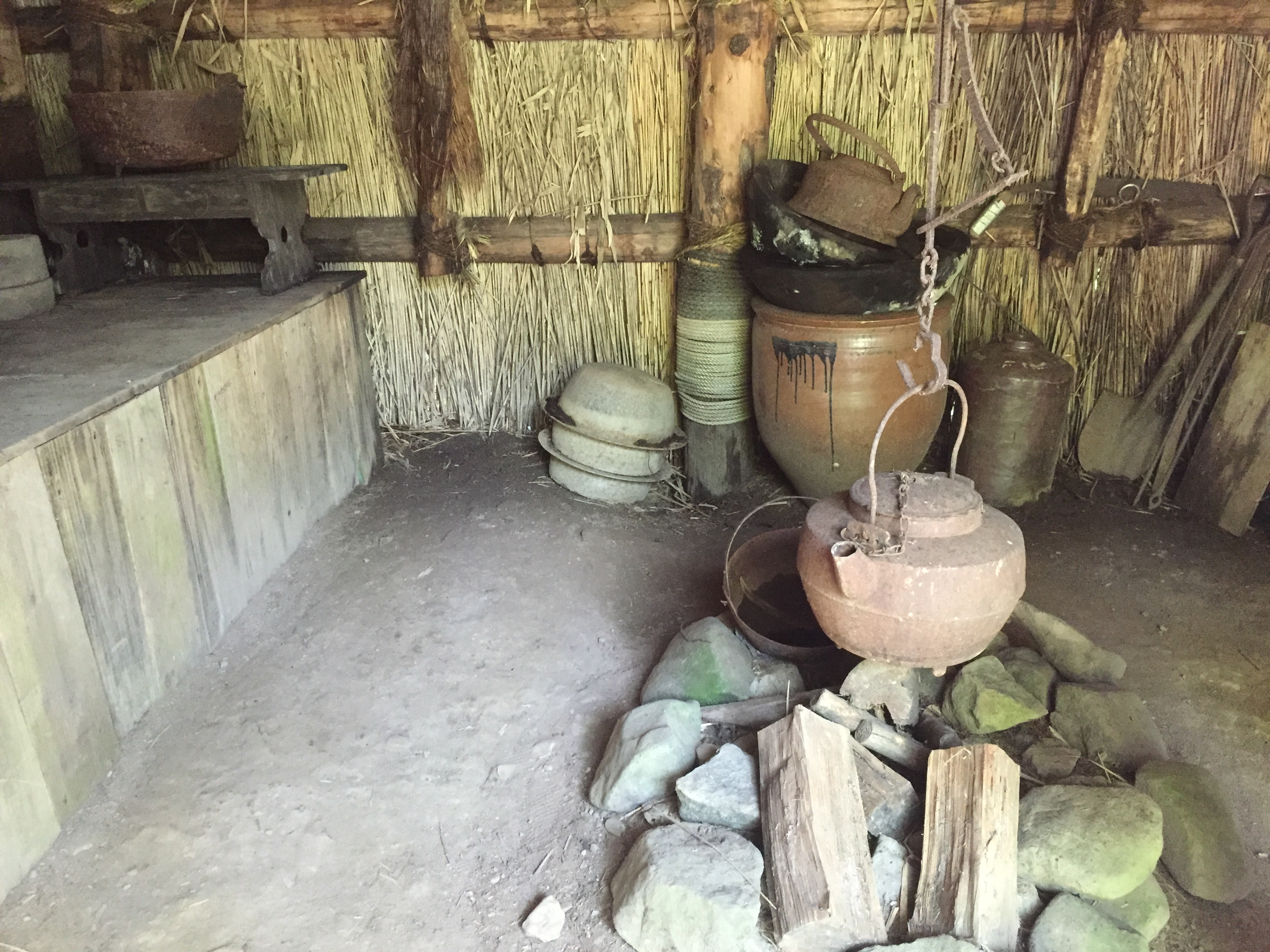 Sankebetsu Brown Bear Incident Memorial House